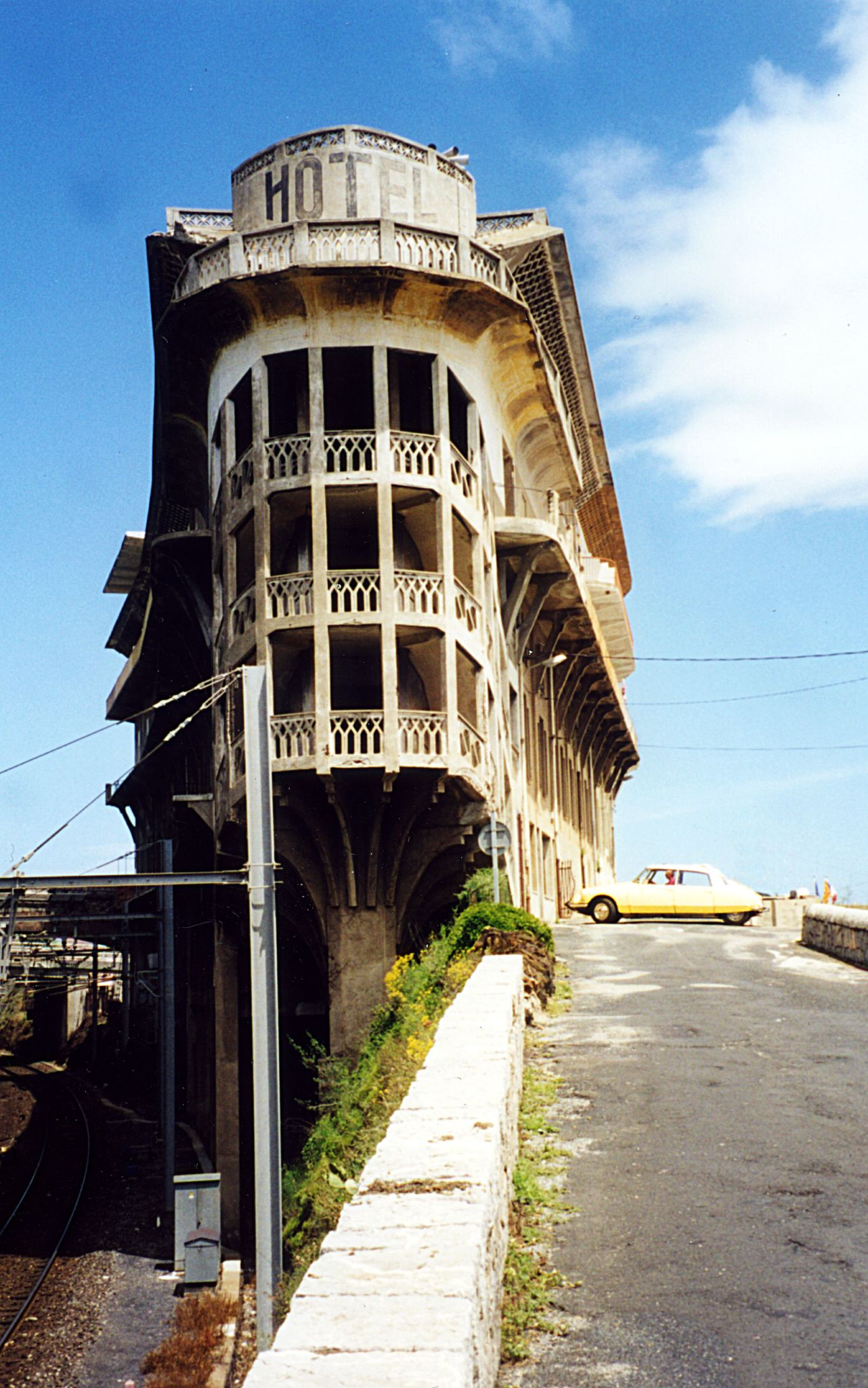 Hôtel Belvédère du Rayon Vert. At the Railway Hotel, Cerbère. PO66. On the Franco-Spanish border. Sadly no longer open for business, except a few rooms for holiday lets.